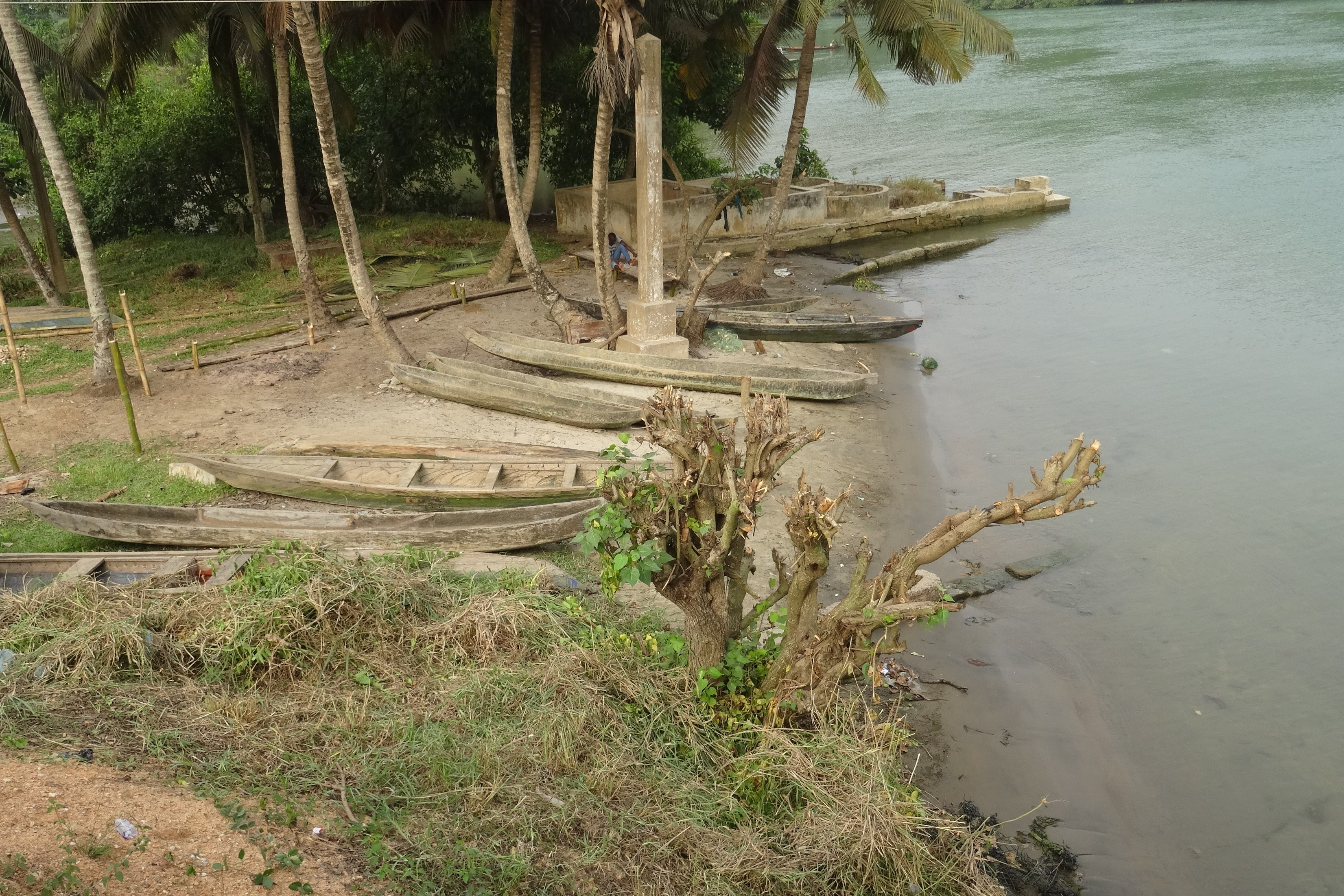 Fishing boats close to the estuary of Ankobra River in the Western Region of Ghana